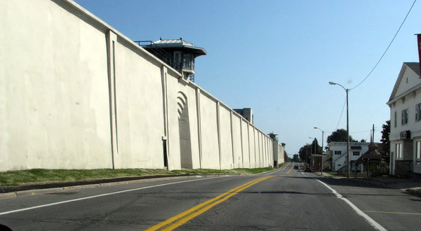 Photo of Clinton Correctional Facility in Dannemora, New York.